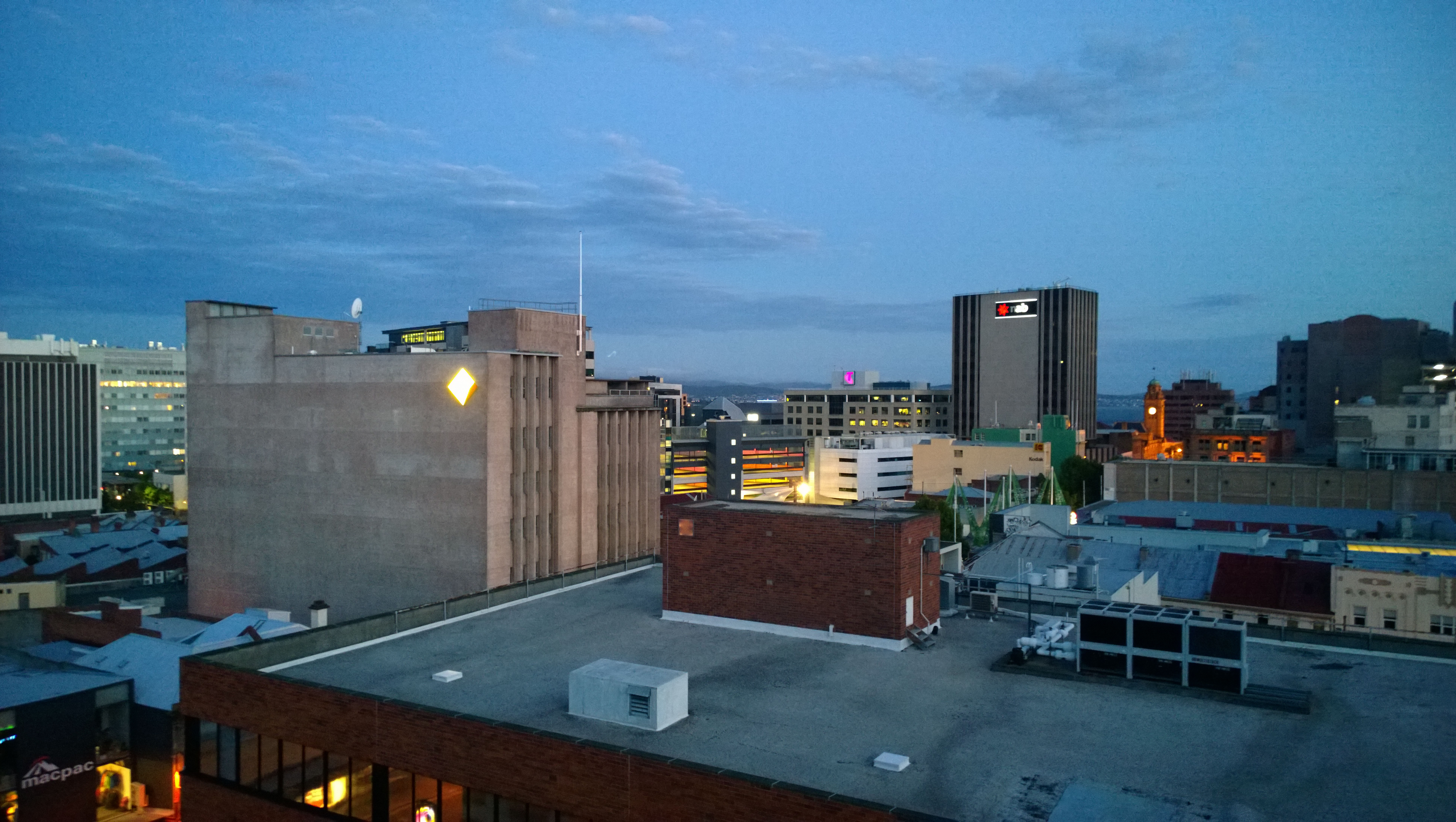 A Picture of the Hobart skyline at dusk.